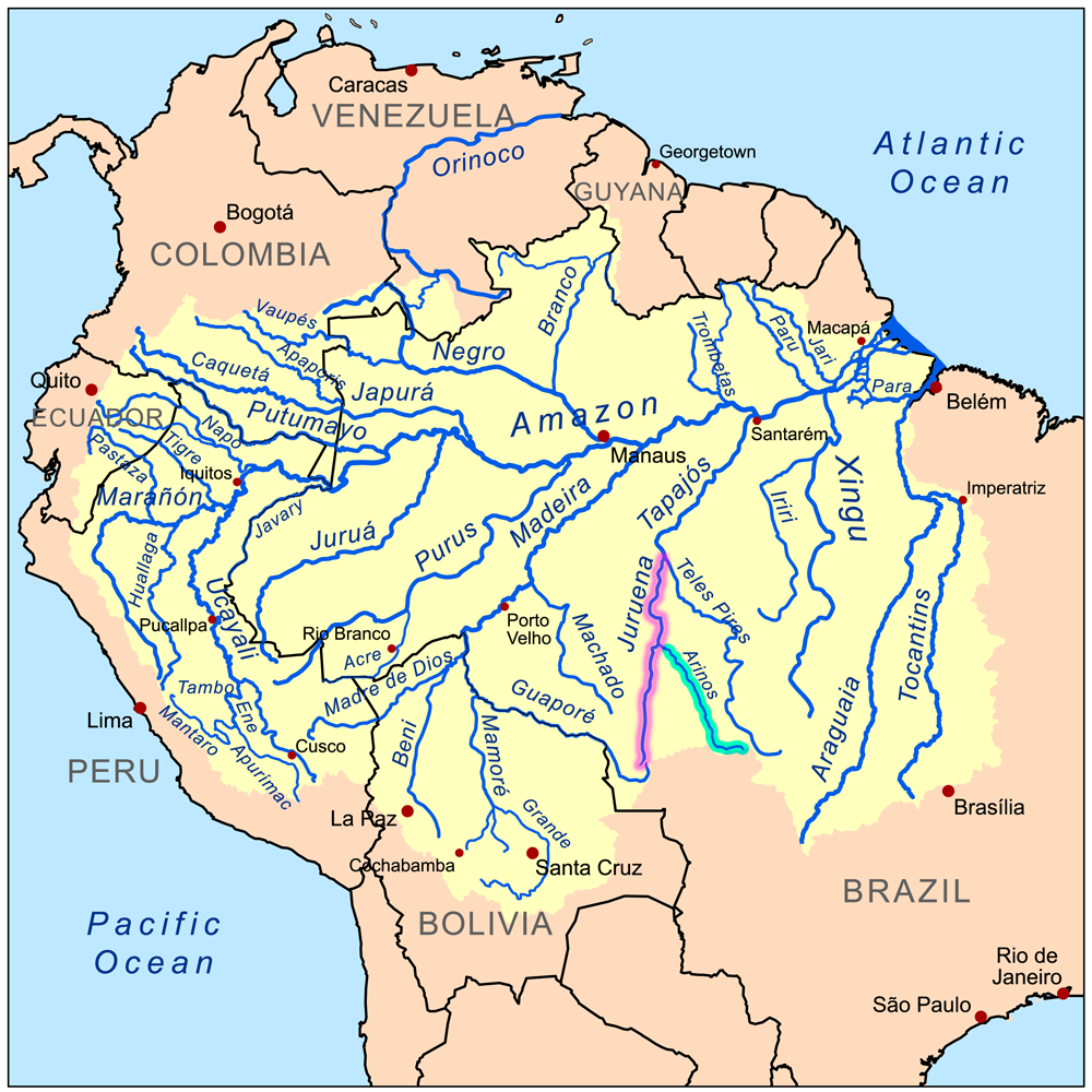 This is a map of the Amazon River drainage basin with the Juruena River highlighted in pink and the connected Arinos River highlighted in turquiose.